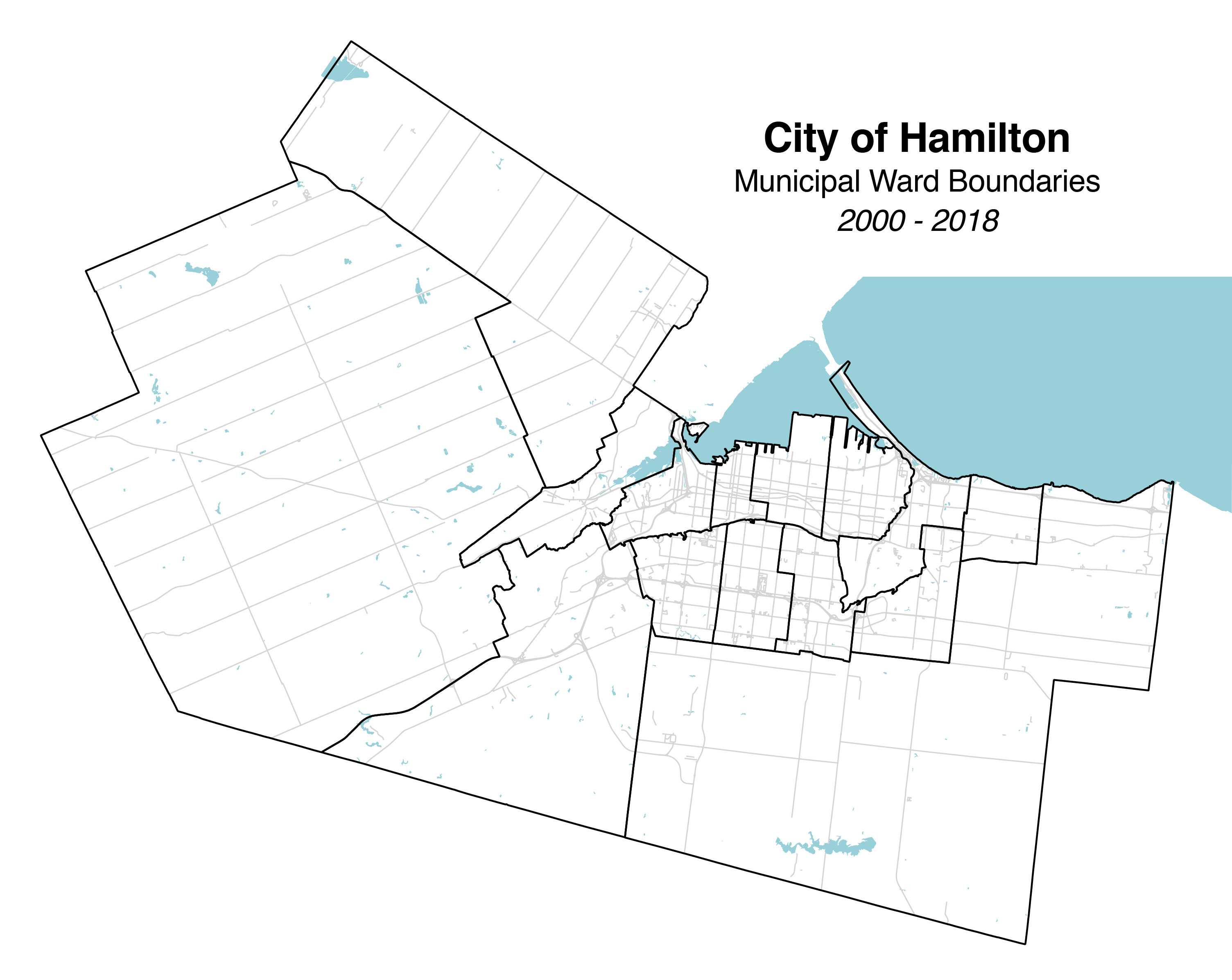 Wards of the City of Hamilton from 2000 to 2018 with opaque major road outlines, major bodies of water, and floating text.